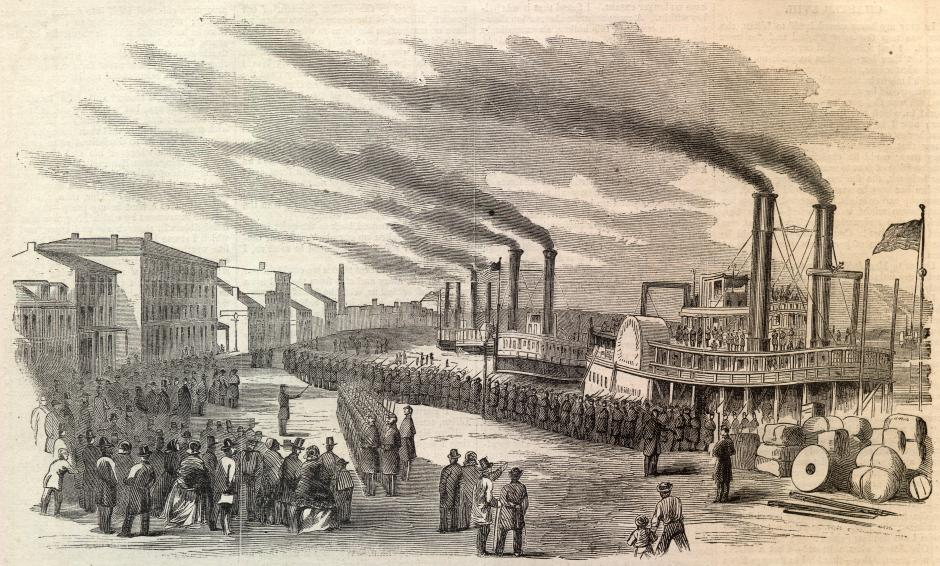 Harper's Weekly image of troop arrival in Louisville, January 11, 1862. Original caption: "LANDING OF OHIO TROOPS AT LOUISVILLE, KENTUCKY.—[SKETCHED BY MR. H. MOSLER.] "